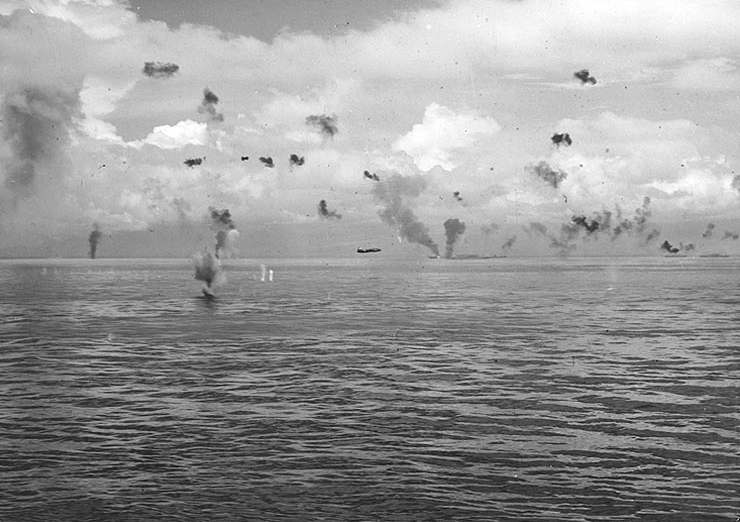 Japanese Navy Type 1 land attack planes (Mitsubishi G4M1 "Betty") fly low through anti-aircraft gunfire during a torpedo attack on U.S. Navy ships maneuvering between Guadalcanal and Tulagi in the morning of 8 August 1942. The burning ship in the center distance is probably USS George F. Elliott (AP-13), which was hit by a crashing Japanese aircraft during this attack.